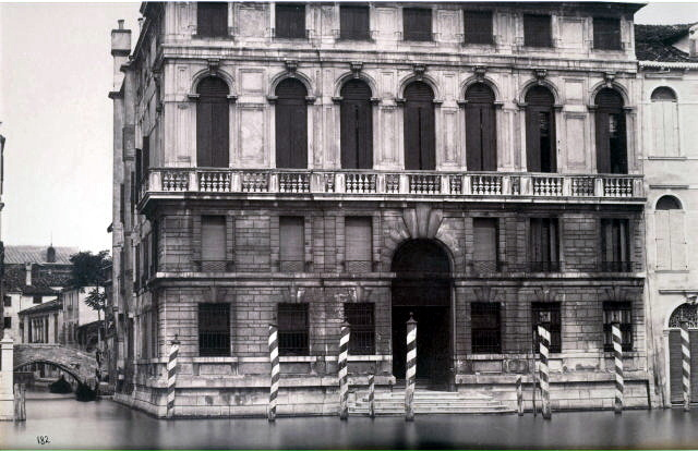 Carlo Naya (1822-1881) - "Venice - Palazzo Grimani at San Polo". Catalogue # 182. ca. 1875. Today.